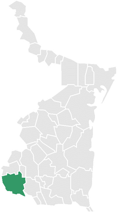 Map of the Municipalty of Tula in the State of Tamaulipas, México.